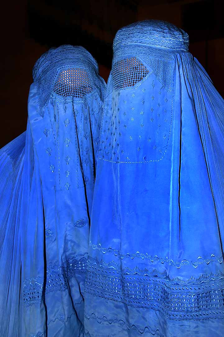 Afghan women wearing burqas when going outside in northern Afghanistan.